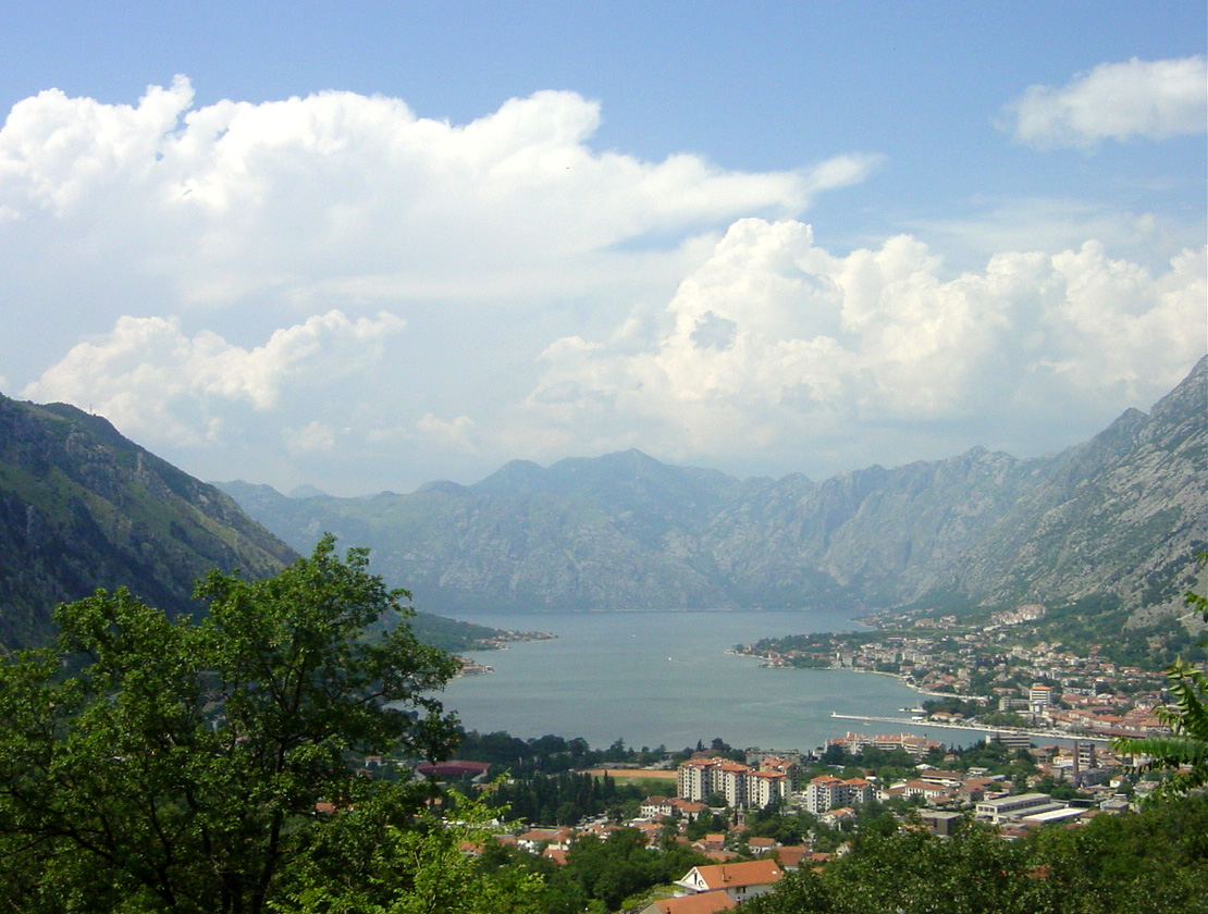 A view of Kotor bay in Montenegro.